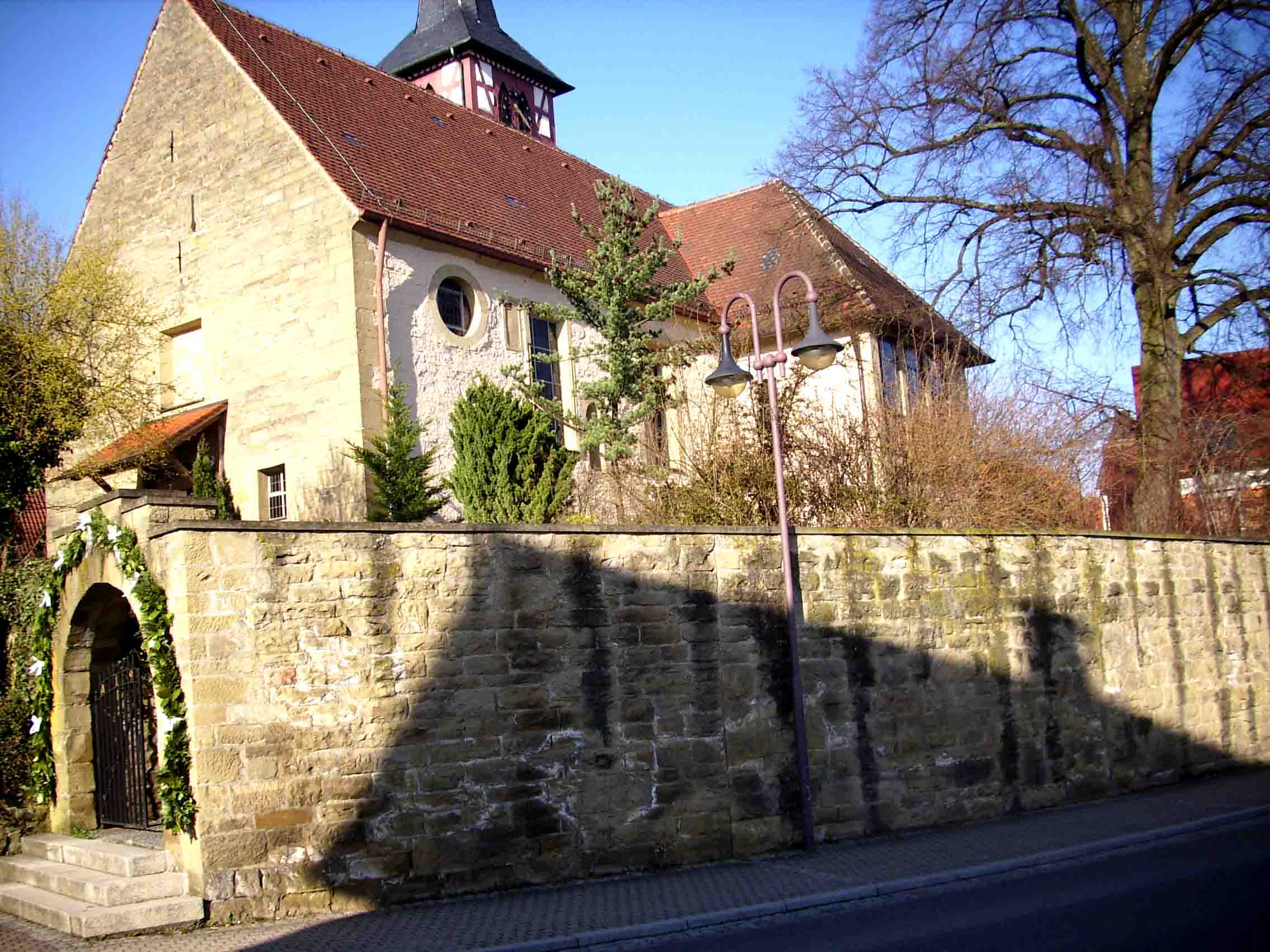 Affalterbach (Church-Castle); District of Ludwigsburg; Federal State of Baden-Württemberg; Germany